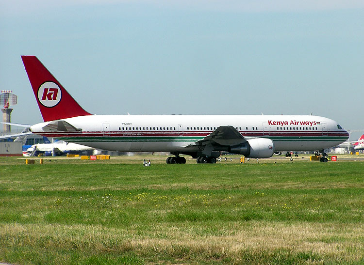 Kenya Airways Boeing 767-300 (5Y-KQY) waiting for take off at London (Heathrow) Airport in August 2004. (Note from the photographer: this picture is not up to my usual standard. It shows the effects of heat haze, particularly on the red and green horizontal cheat lines. A higher quality pic would be nice but I don't have one)